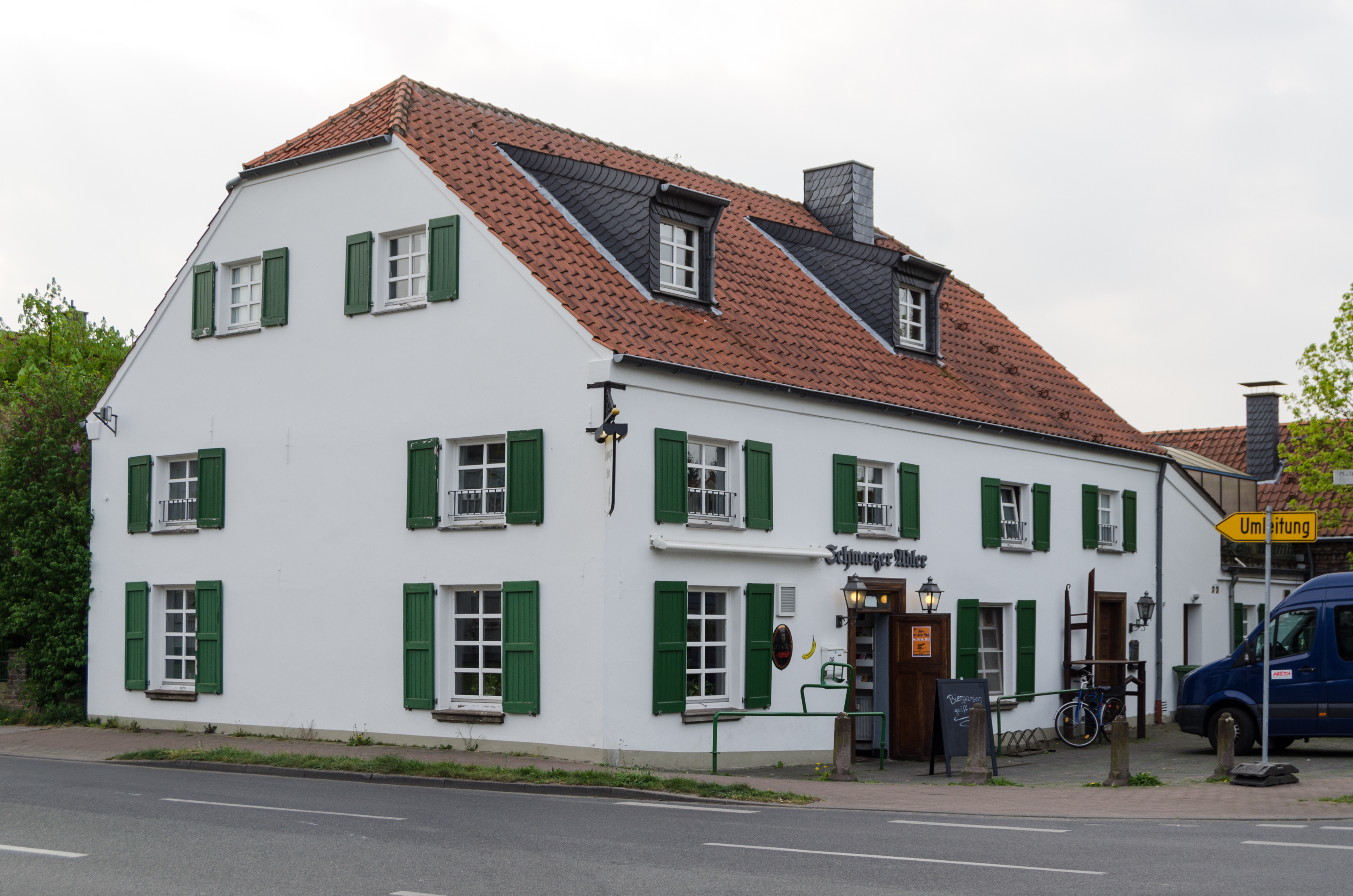 Rheinberg (Nordrhein-Westfalen) – Vierbaum – Schwarzer Adler